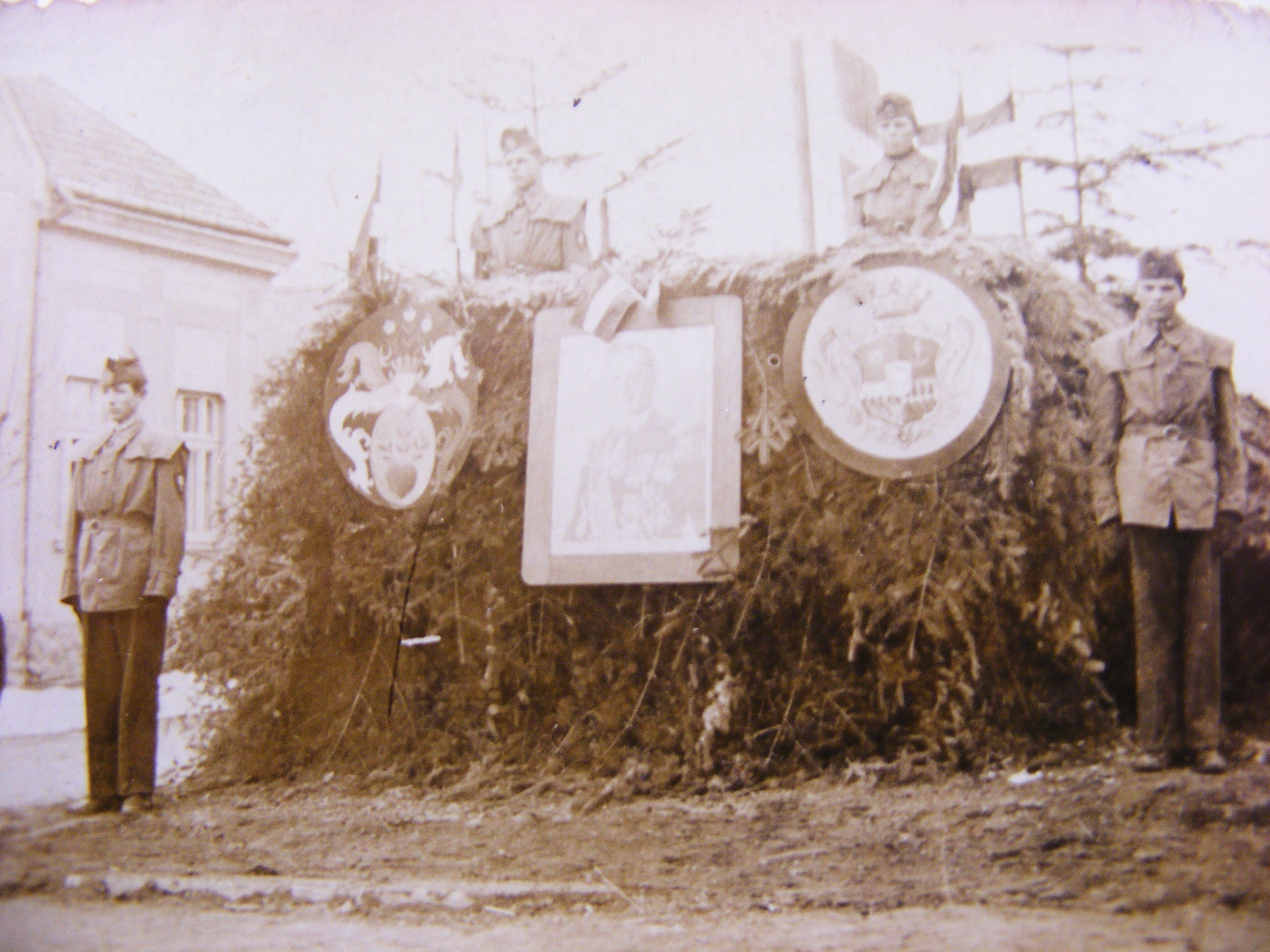 Levente "soldiers" at Újtusnád (today Tuşnadu Nou, Romania), in 1941, after the Second Viena Awards (the picture is a family heritage).